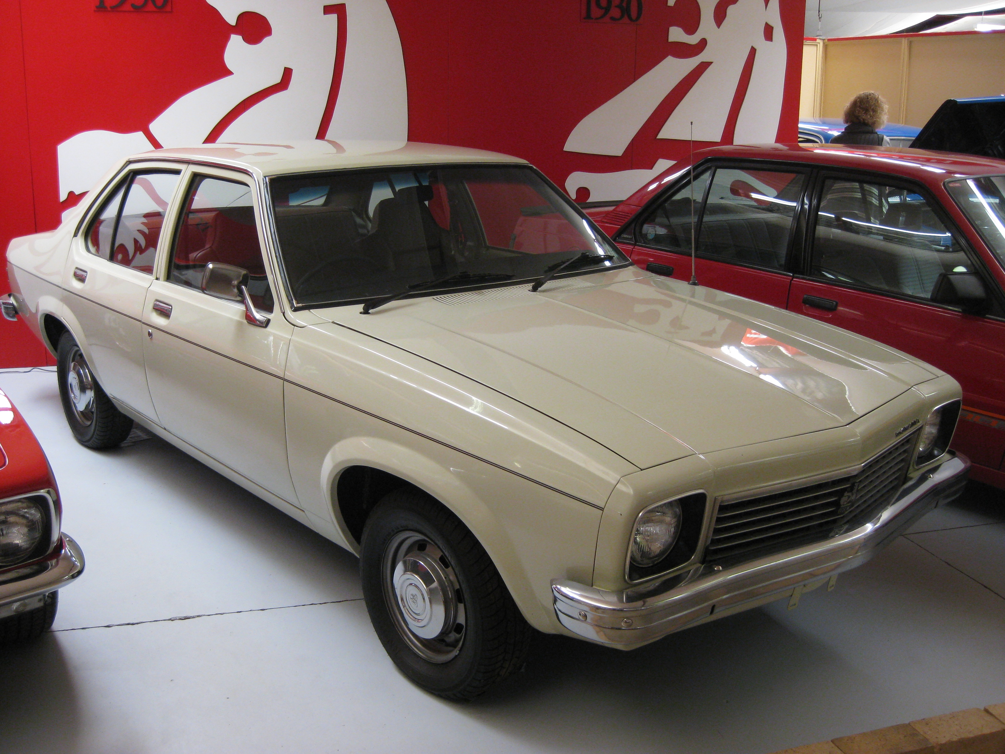 Holden LX Torana S Sedan